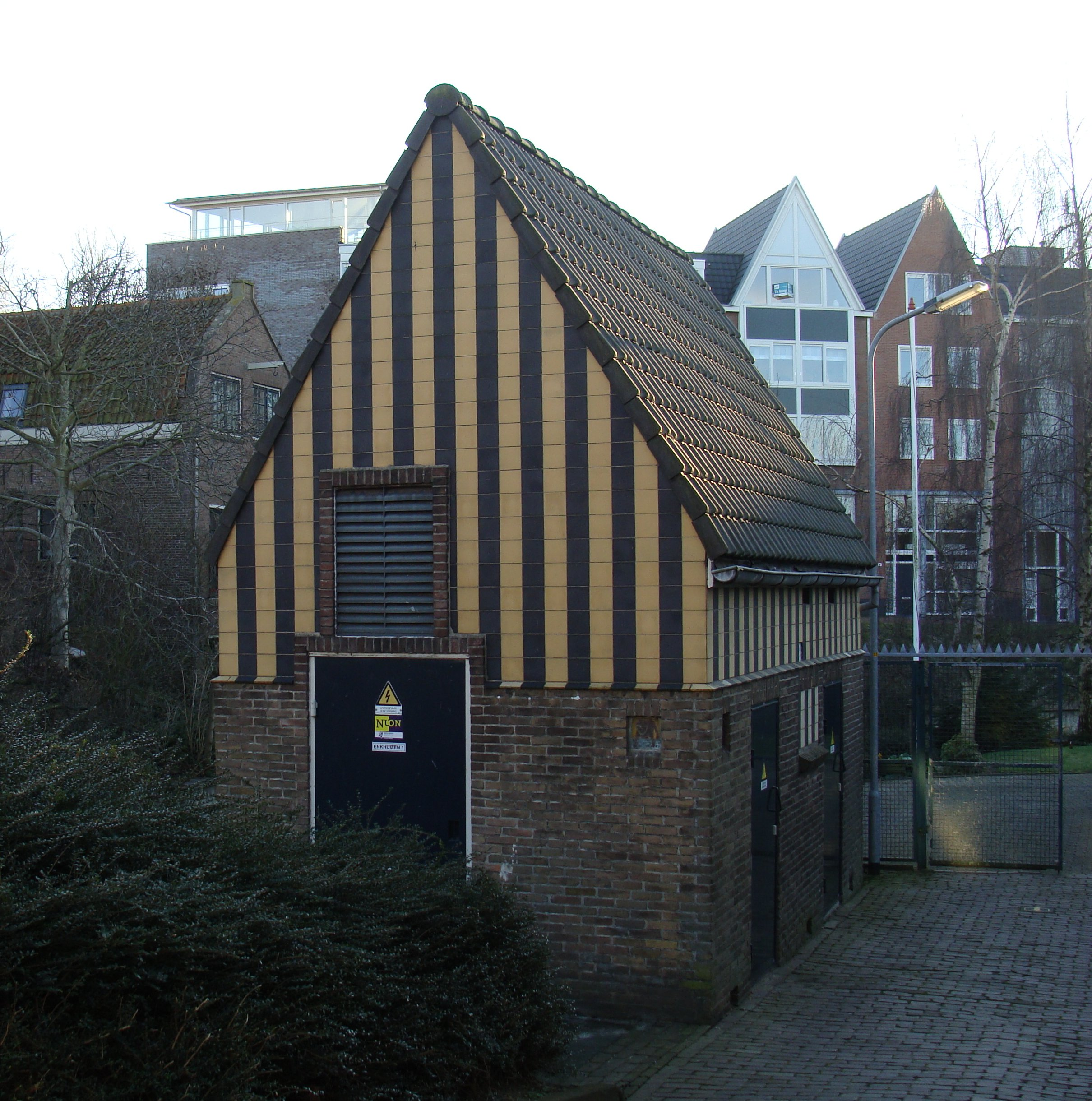 Distribution substation in the Dutch town of Enkhuizen, designed by Dutch architect J.B. van Loghem, 1881-1940